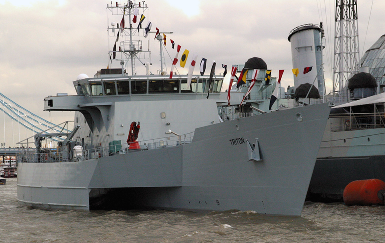 RV Triton moored next to HMS Belfast on the River Thames, London